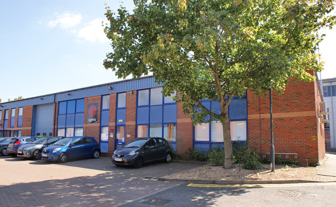 Syrris Ltd head office in Royston, Hertfordshire, UK taken September 2011